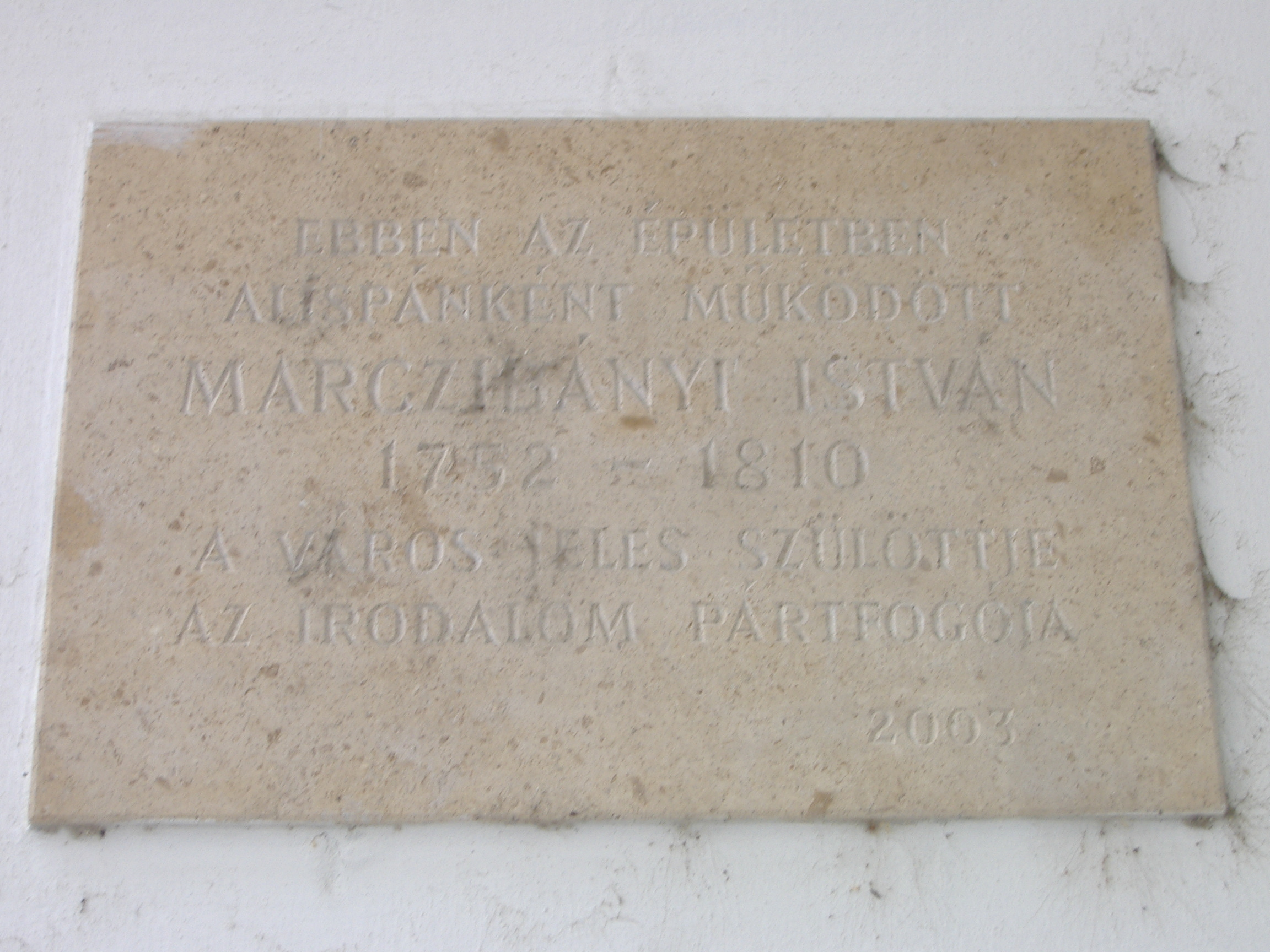 Memorial tablet of István Marczibányi, backer of the arts in Makó Town Hall, Hungary.